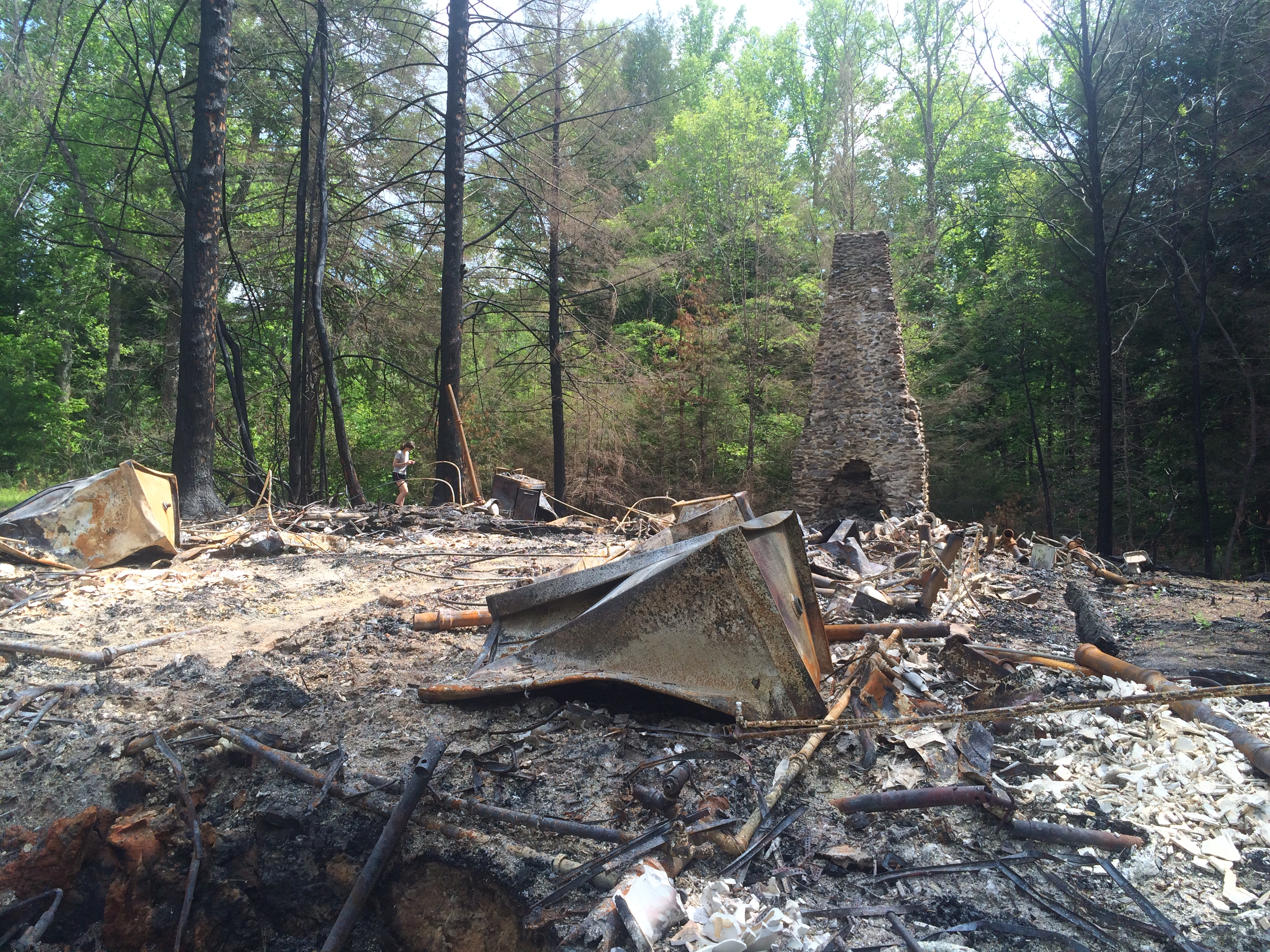 Taken less than two weeks after the fire.